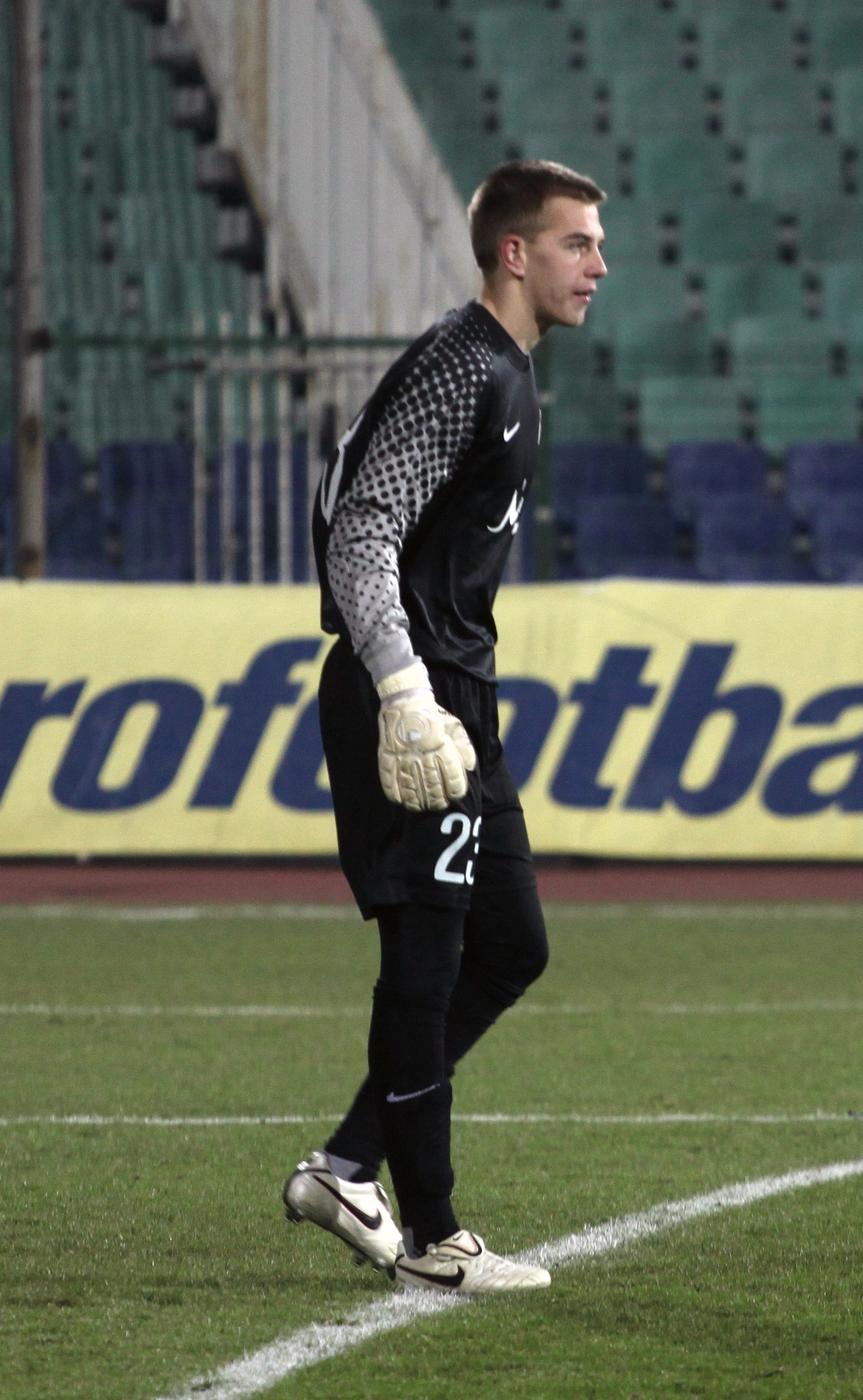 Plamen Iliev-bulgarian soccer player, goalkeeper.He plays for Levski Sofia